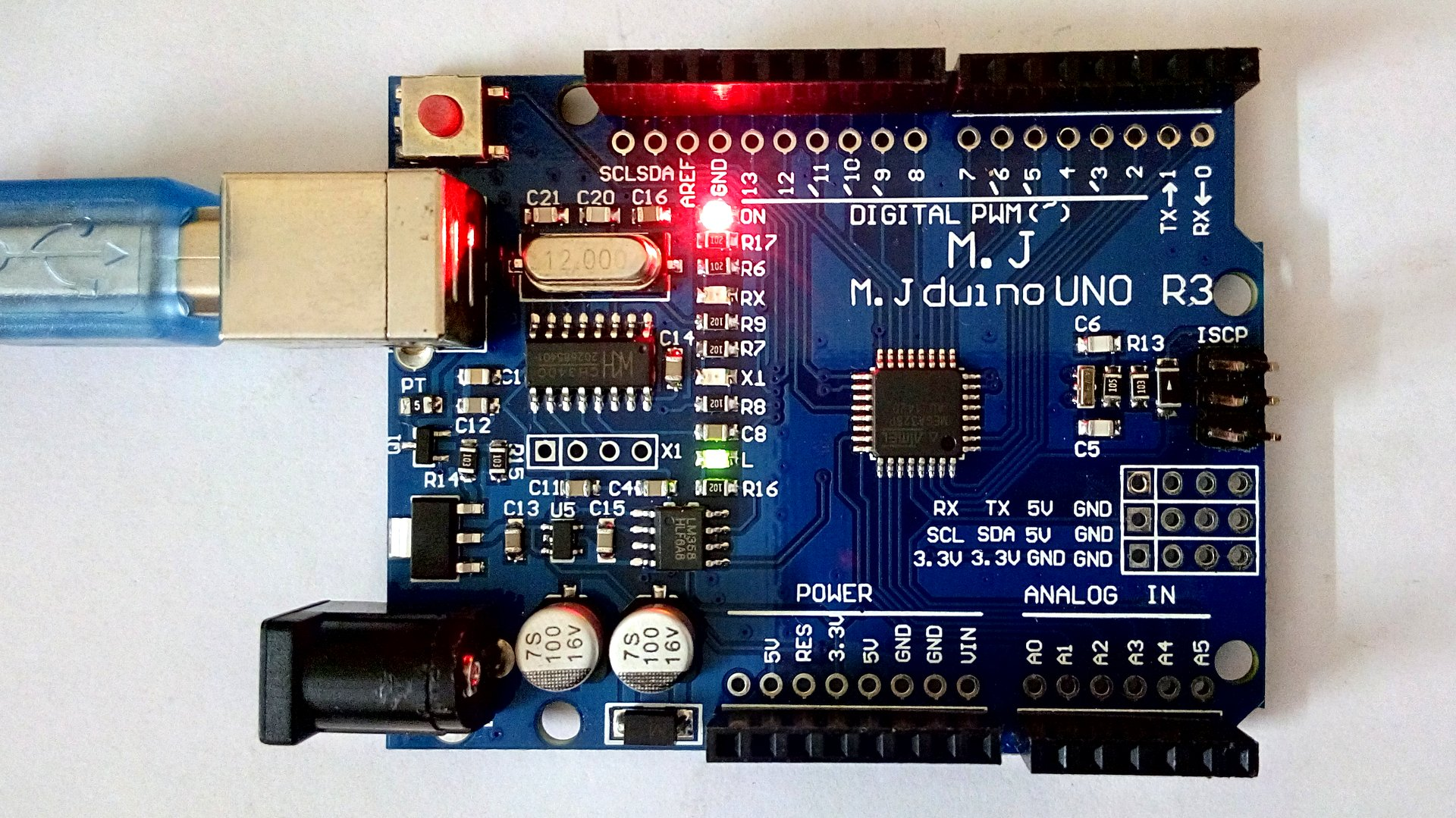 Arduino Compatible boards feature a surface-mounted LEDs to indicate Power Supply and a LED on Line No. 13 for use by applications. The most common use of the Line-13 LED is to run the BLINK example code to test the functioning of the board.